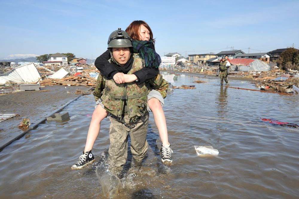 Title 23.3.14 １０Ｅ：被災者を背負って救助（亘理町）.JPG Album 東日本大震災における災害派遣活動 人命救助活動